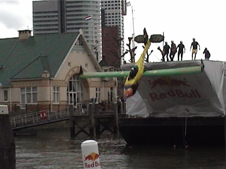 Self made Video still of a self made video of the Red Bull Flugtag in Rotterdam.